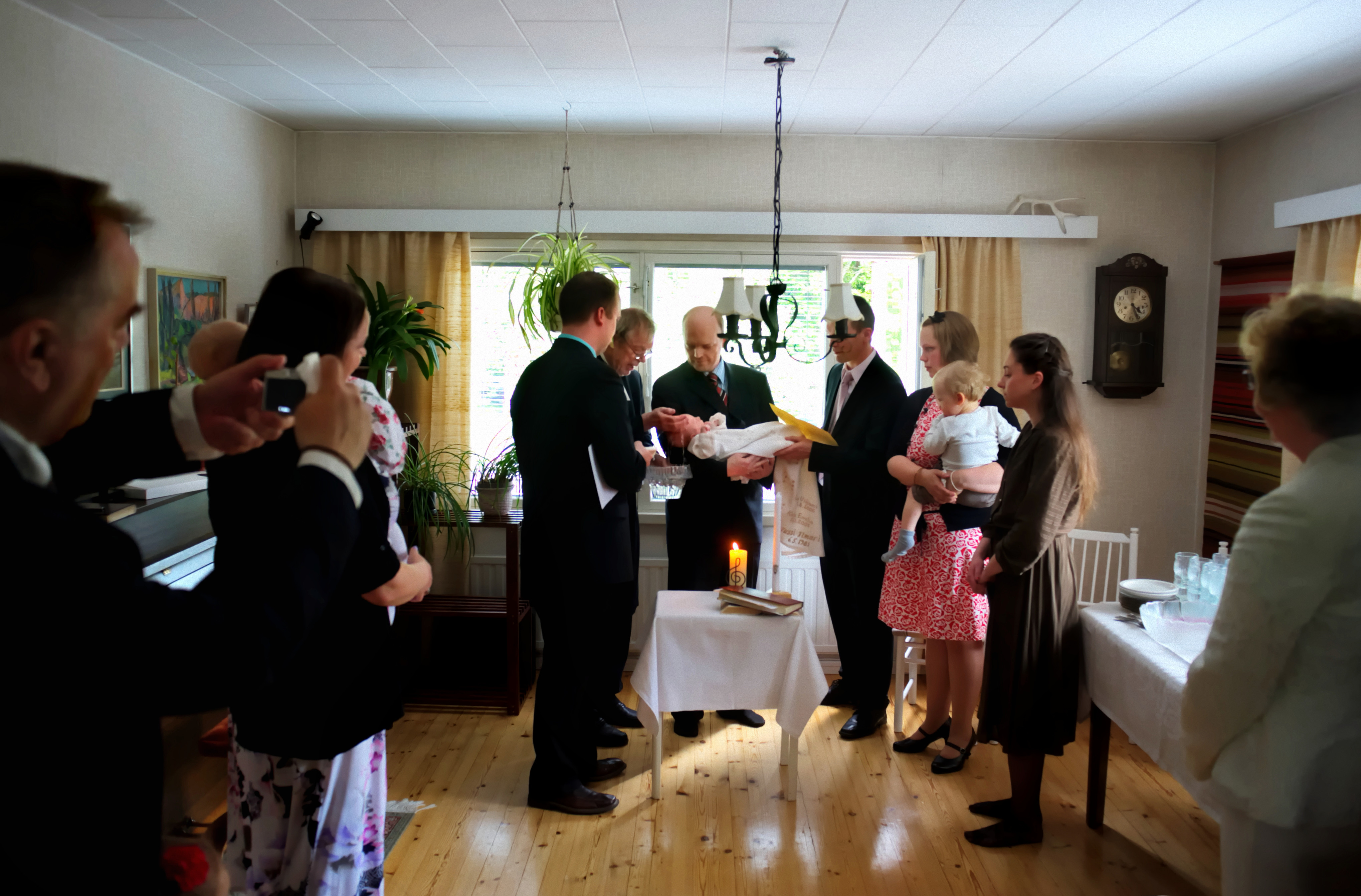 Lutheran Christening in a Finnish home.